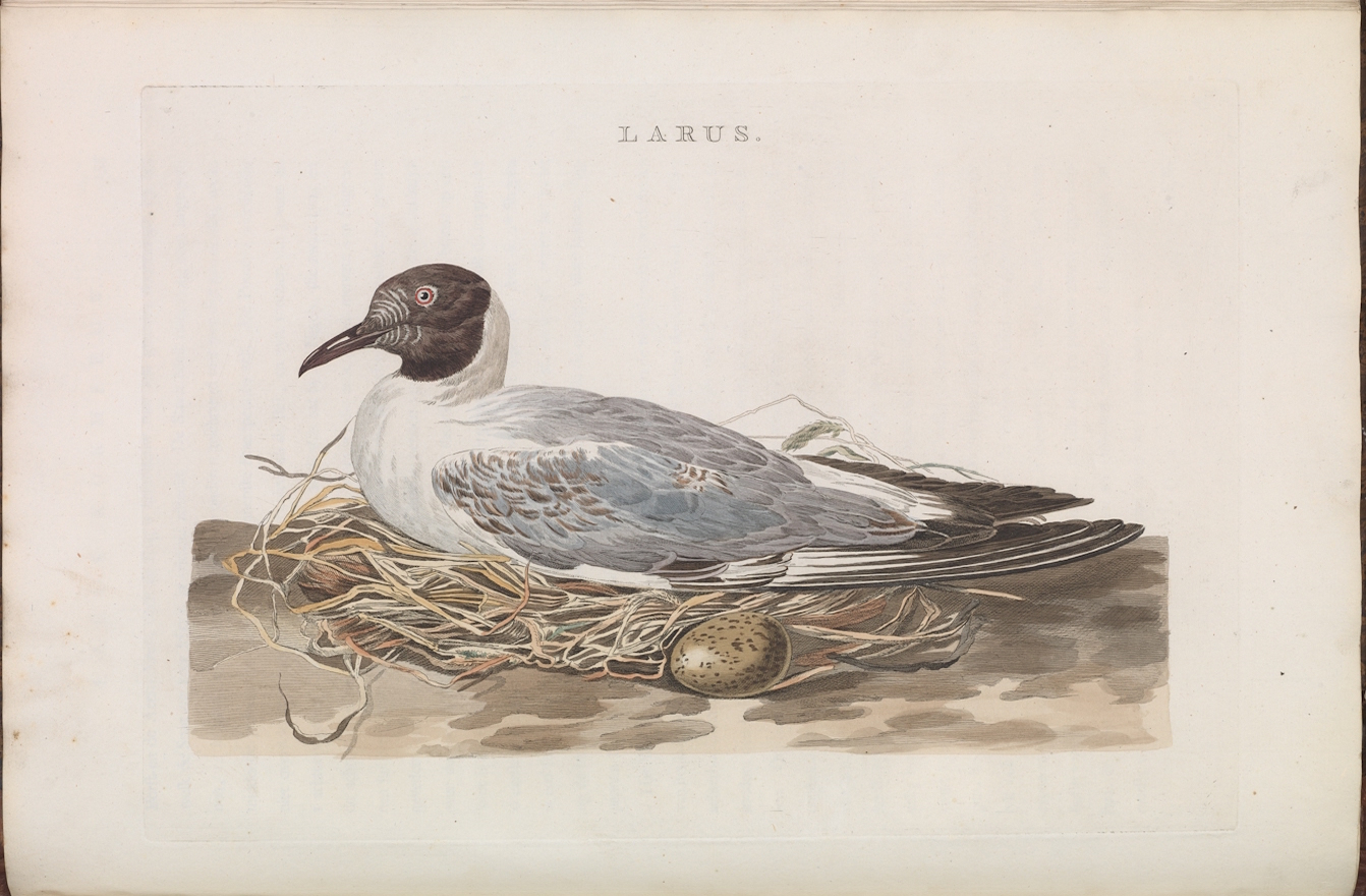 Plate 81 from the Nederlandsche vogelen by Nozeman and Sepp.